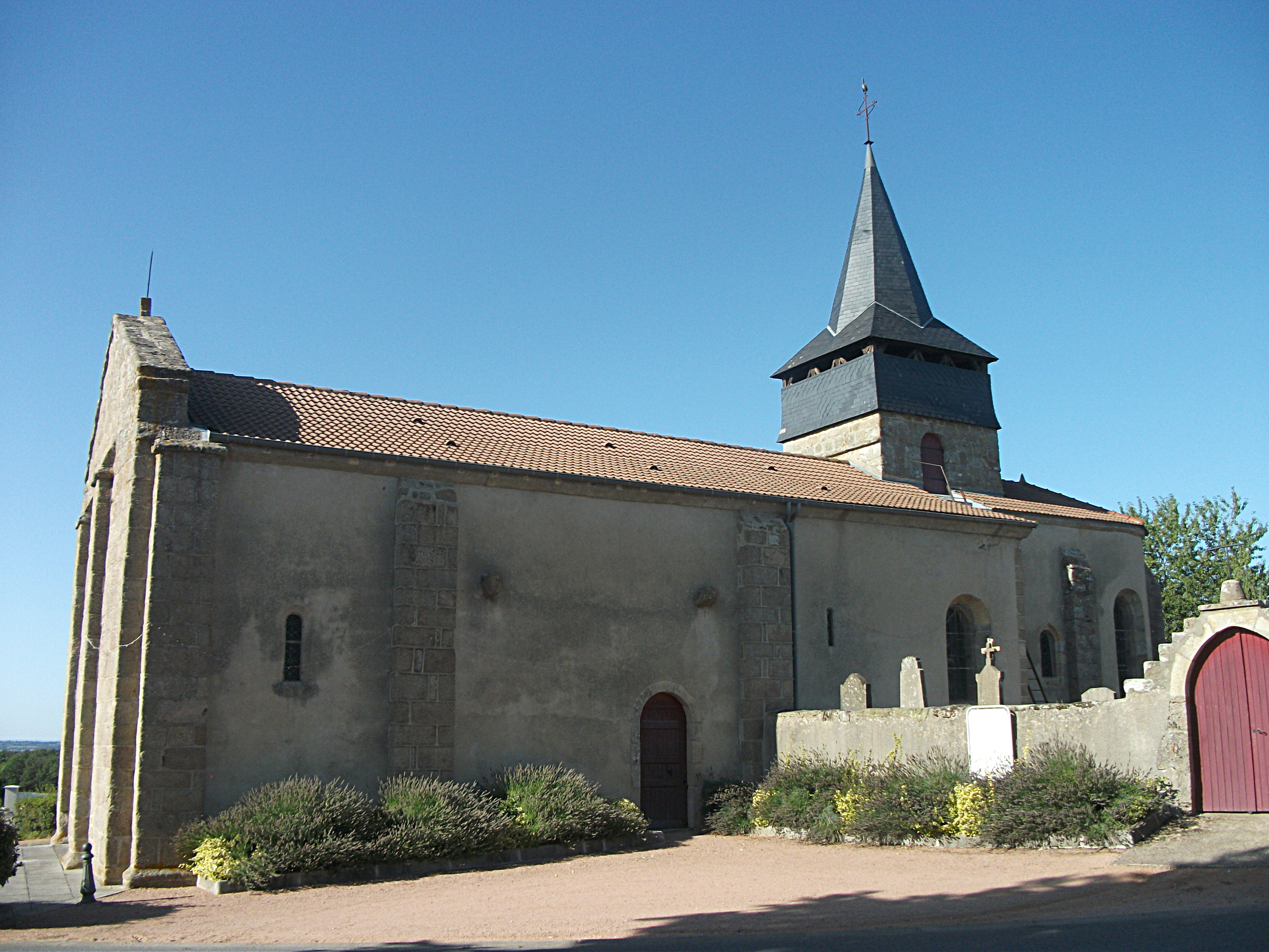 Church of Durdat-Vieux Bourg, in Durdat-Larequille, Allier, Auvergne-Rhône-Alpes, France. [19018]